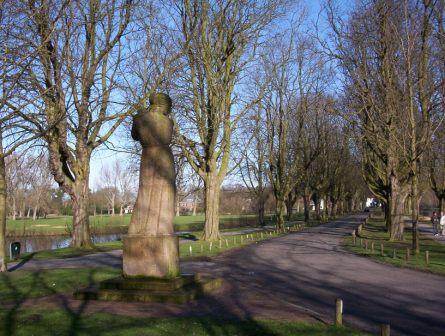 "Freedom", or Vijheidsbeeld, statue by Mari Andriessen in Groenendaal park on Vrijheidsdreef in Heemstede.